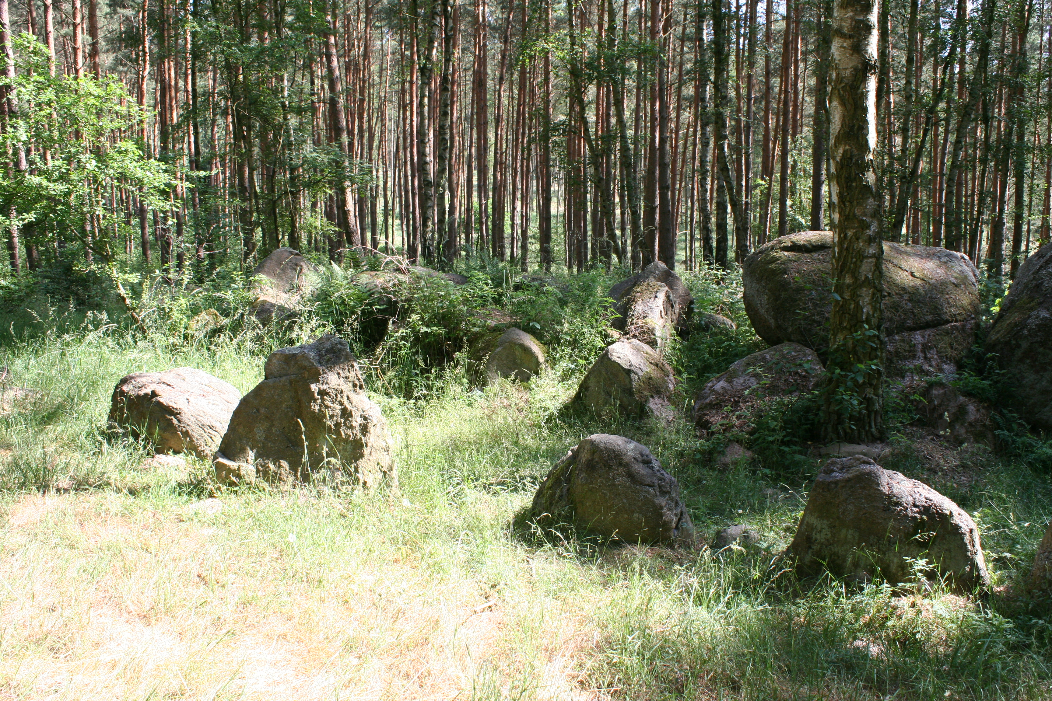 Megalithic tomb "Kaisergrab" ("Emperor's tomb") near Haldensleben